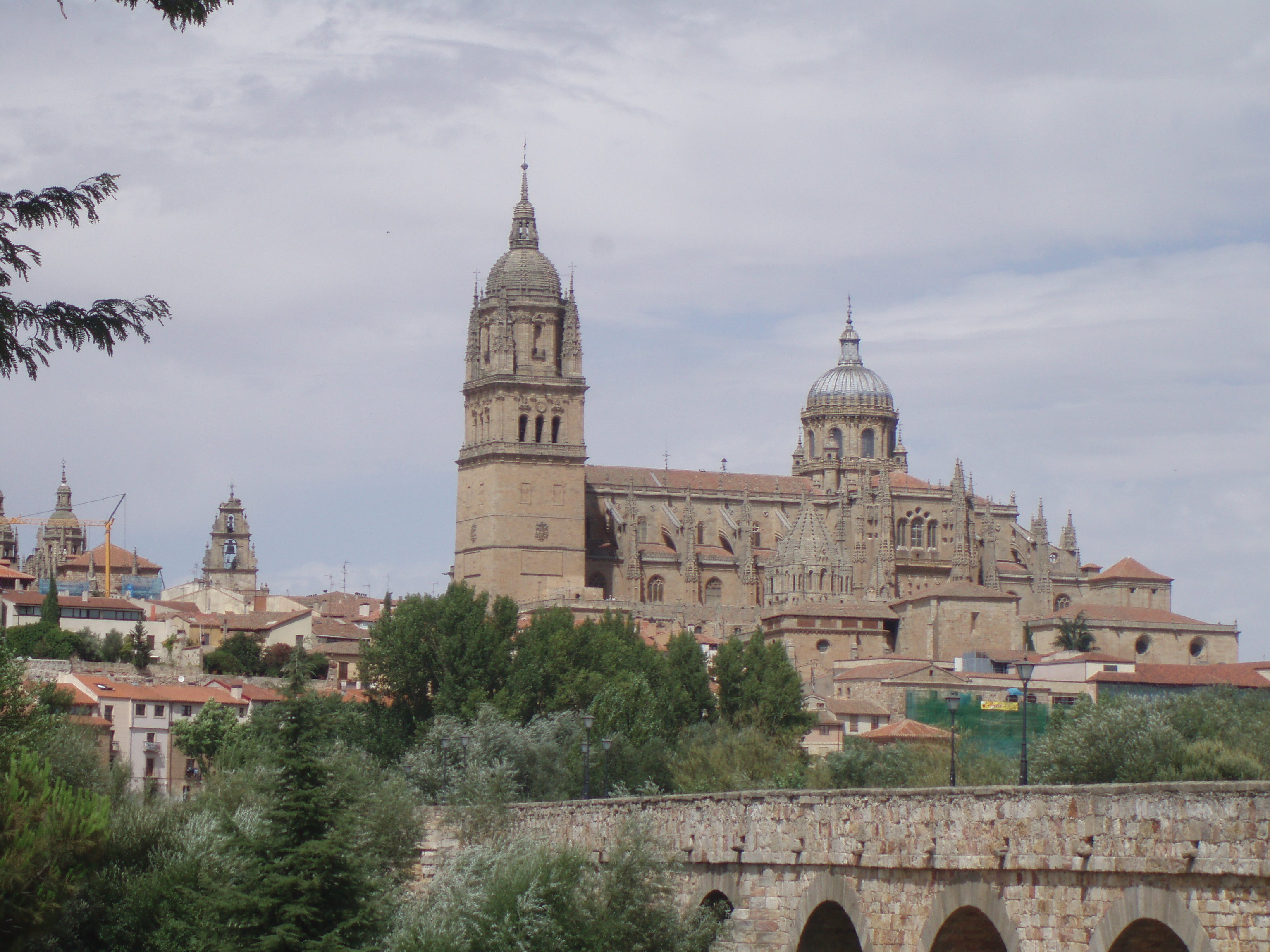 Cathedral of Salamanca, in province of Salamanca. (Spain).